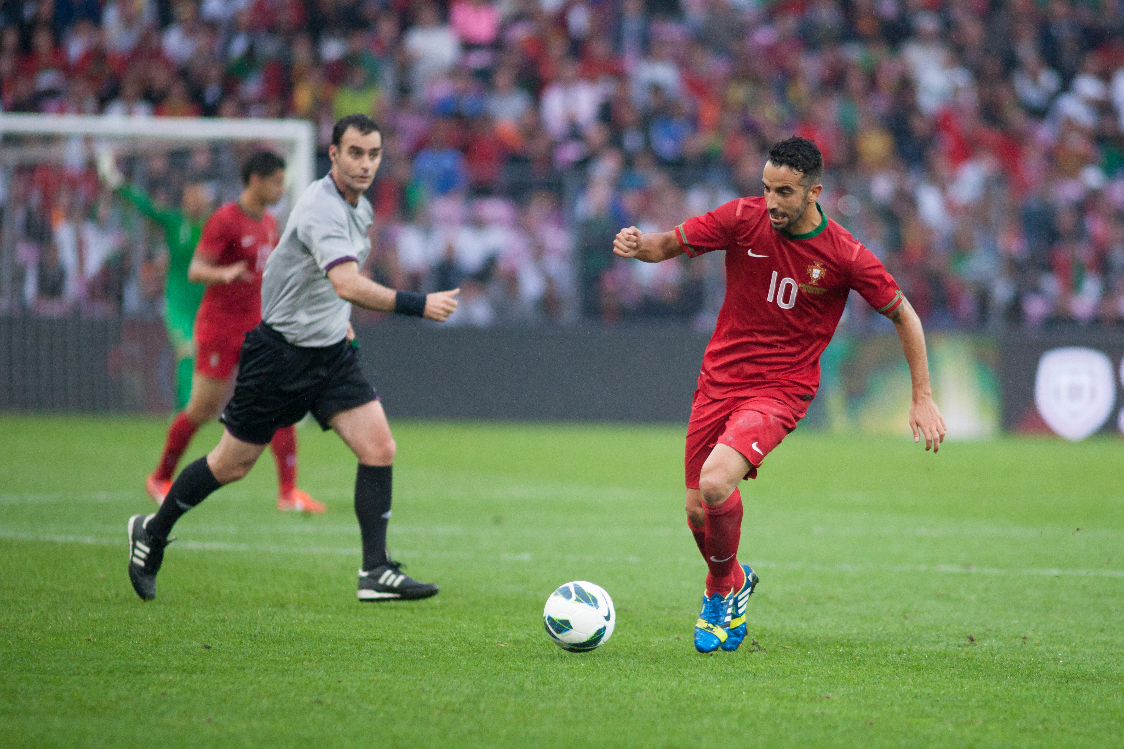 Croatia vs. Portugal, 10th June 2013